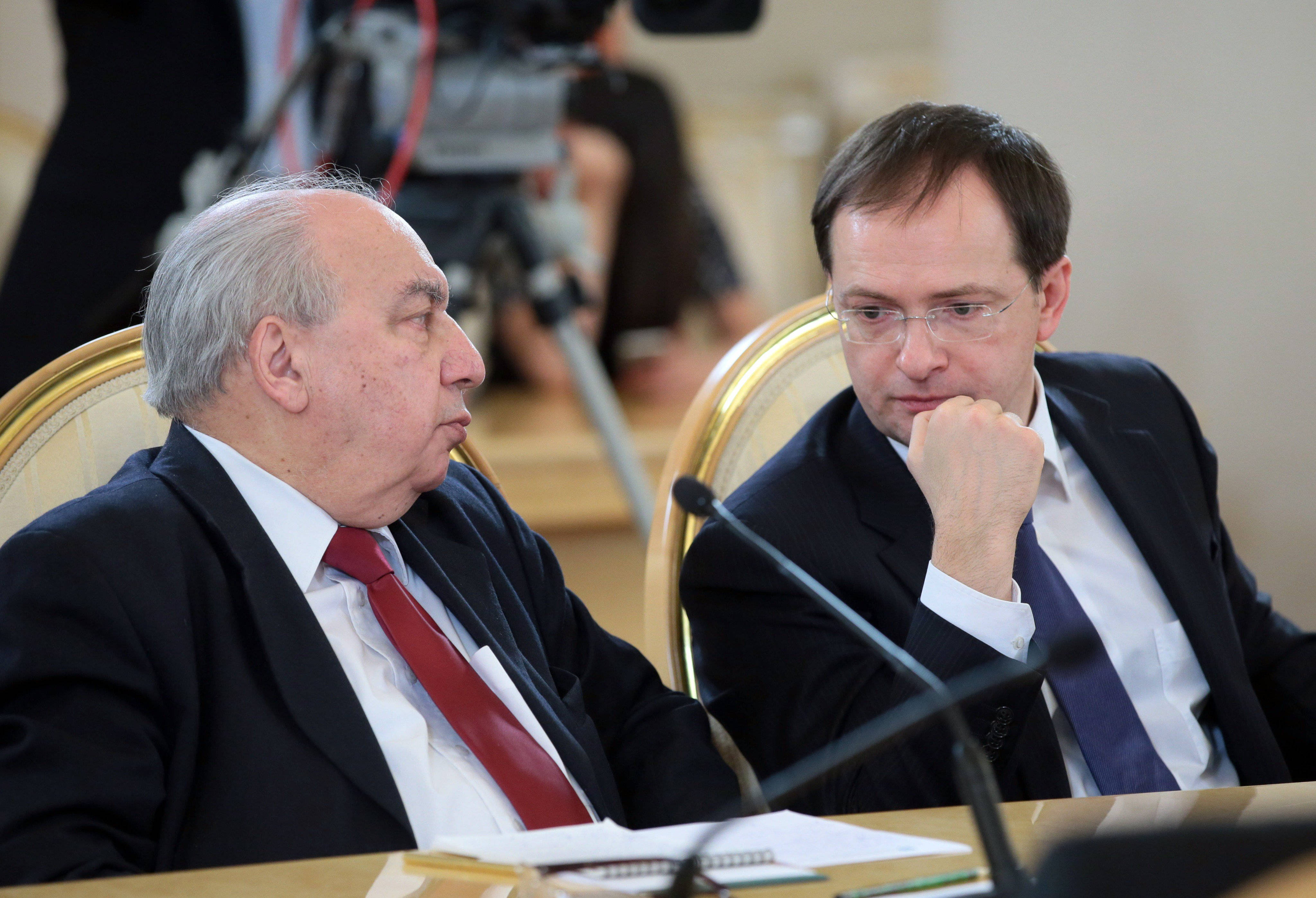 Alexander Oganovich Chubarian (left), Member of the Russian Academy of Sciences, Director of Institute of General History of Russian Academy of Sciences, with Vladimir Medinsky (right), January 16, 2014.